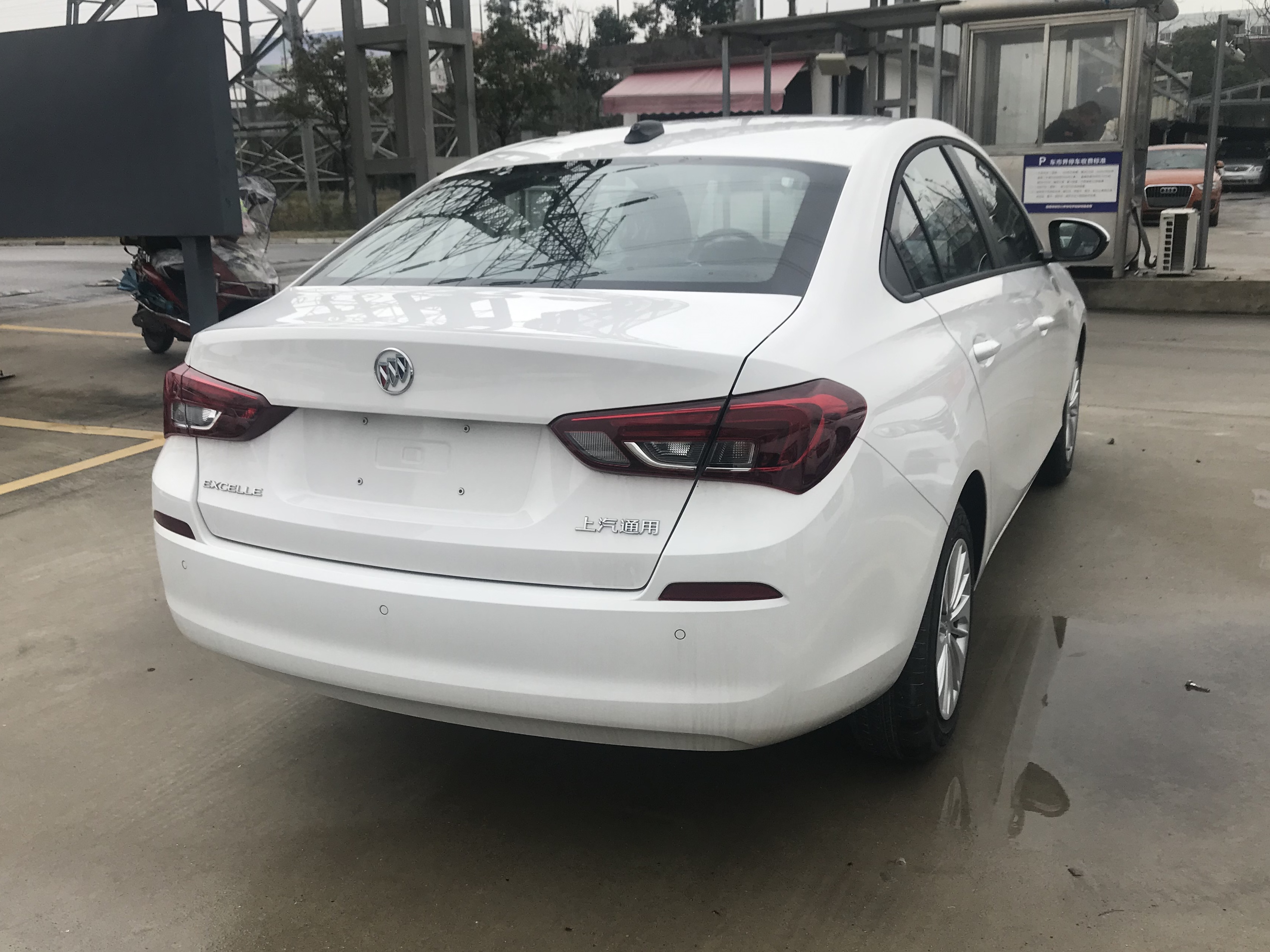 Buick Excelle (Second Generation)